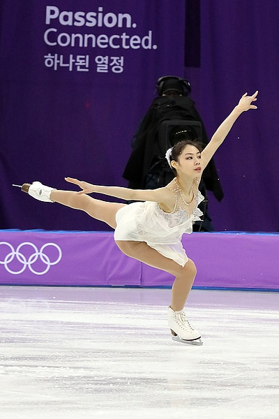 Photos – Olympics 2018 – Pairs (YU Xiaoyu ZHANG Hao CHN – 8th Place)